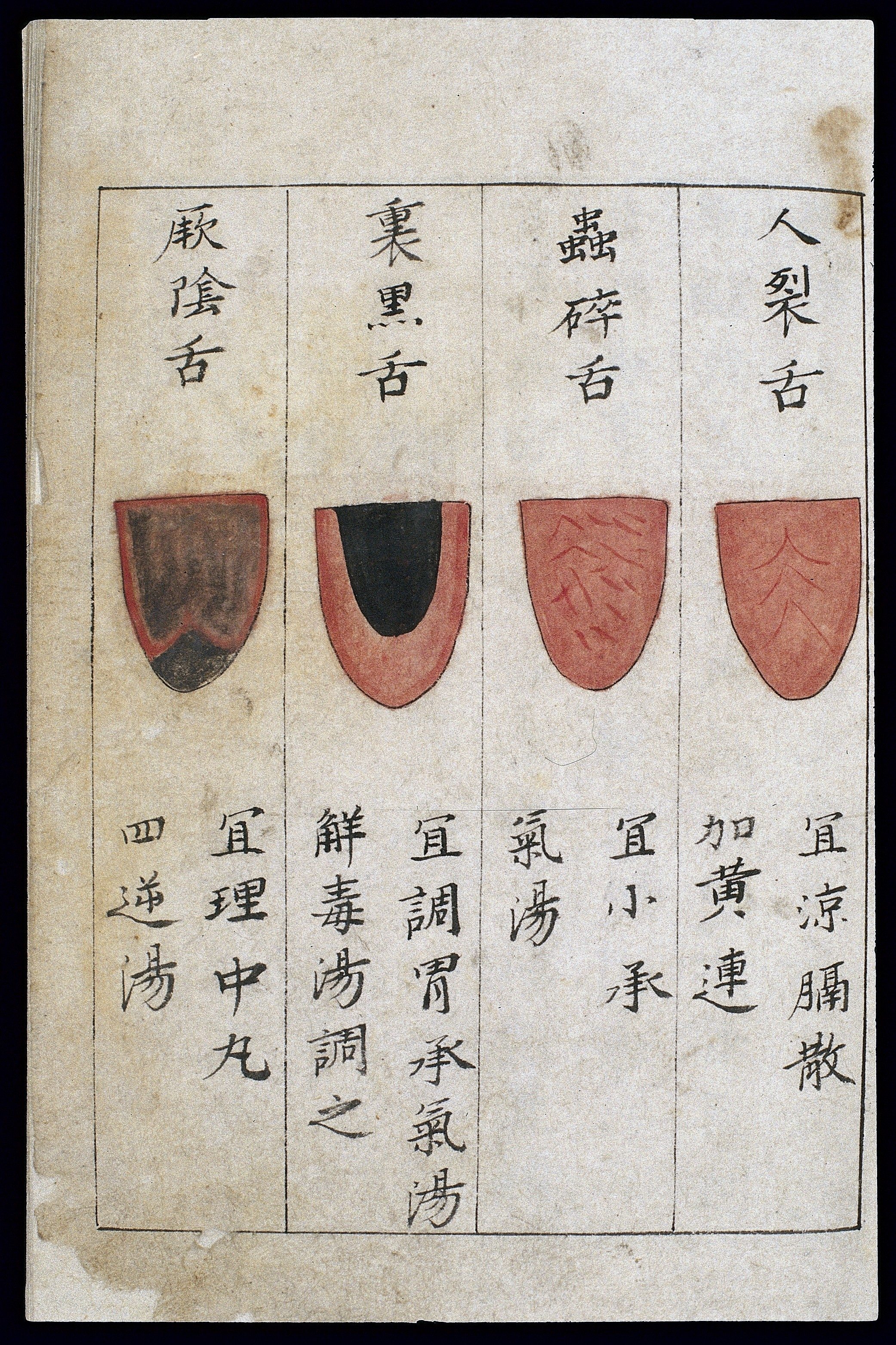 Illustration of 'renfissure' (ren lie), 'worm-eaten' (chong sui), 'black within' (li hei) and 'jueyin' tongue from a manuscript copy ofShanghan diandian jin shu(The Gold-dust Book of Cold Damage) dated '1st year of the Zhengyuan reign period of the Yuan dynasty' (1341), section entitledYanzheng she(Examining the Tongue). All four illustrations appear on the same half-folio.This book incorporates the teachings of Ao Jiweng (Song period, 960-1279) on the movement of Qi and those of Du Ben (Tao Hua) (Yuan period, 1206-1368) on pulse and tongue diagnosis, etc.Yanzheng sheis based on an original text by Ao Jiweng, edited by Chen Shiwen and Shi Buni (Song period). It is a guide to the diagnosis of cold damage conditions according to the coating of the tongue, with 36 illustrations in colour.The text states: In Ren fissure tongue image, the body of the tongue is red, and has fissures on it in the shape of the Chinese graph 'ren' [like a reversed lamda]. In light of this tongue image, the appropriate treatment is Diaphragm Cooling Powder (liang ge san) with Chinese Goldthread (huanglian).In Worm-Eaten tongue image, the body of the tongue is red, and has red spots irregularly distributed over it, giving it a worm-eaten appearance. It should be treated with Qi Supporting Decoction (cheng qi tang).In Black Within tongue image, the body of the tongue is pale red, with a stiff, black part in the centre. This should be treated with Stomach Regulating and Qi Supporting Decoction (tiao wei cheng qi tang), and Poison-Removing Decoction (jiedu tang).Injueyintongue image, the body of the tongue is pale red with black patterns on it. It should be treated with Centre-Regulating Pills (li zhong wan) and Four Retrograde/Cold Extremities Decoction (sini tang). Illustrated manuscript